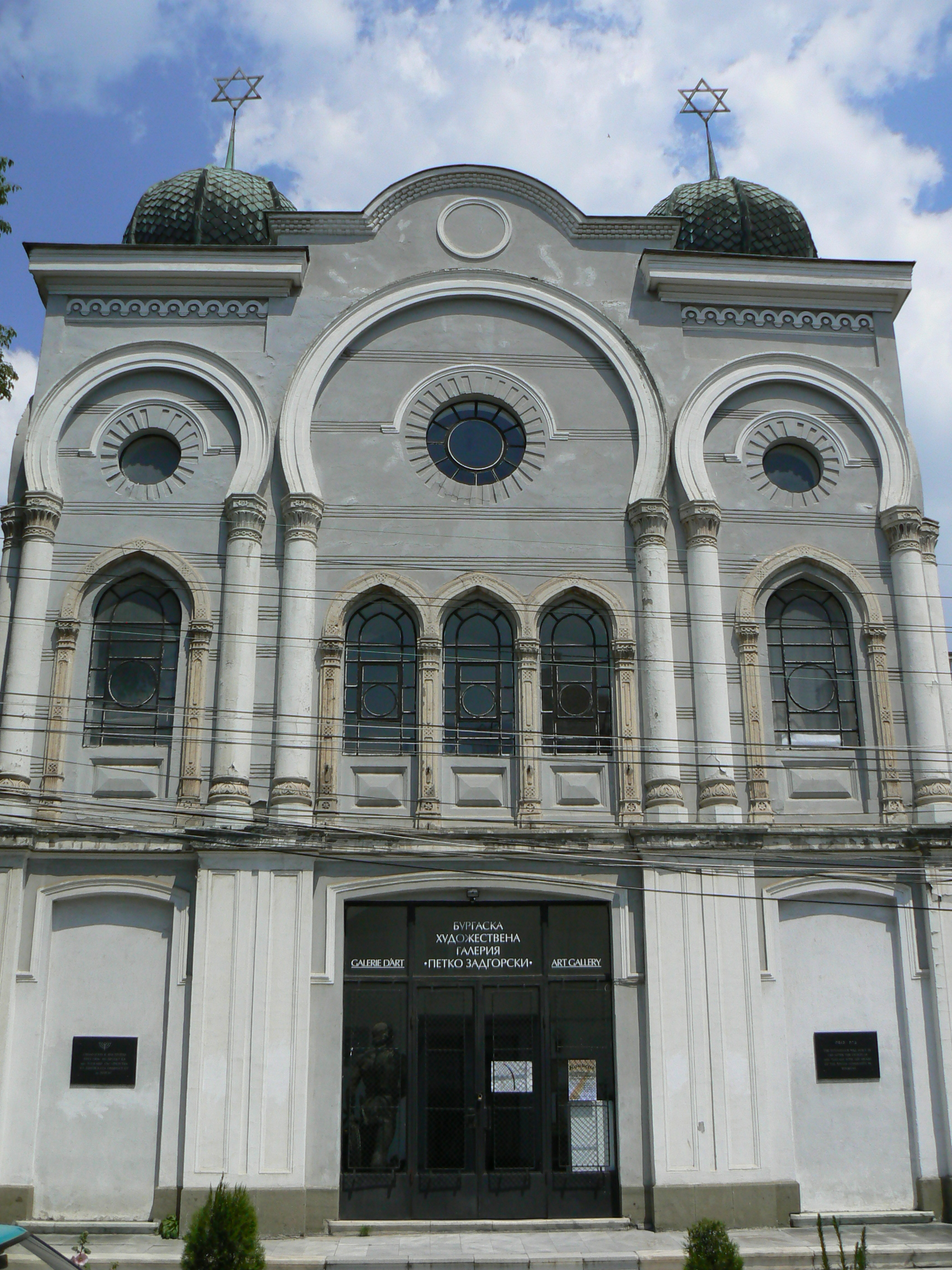 Burgas art gallery "Petko Zadgorski" in the building of the former Synagogue.